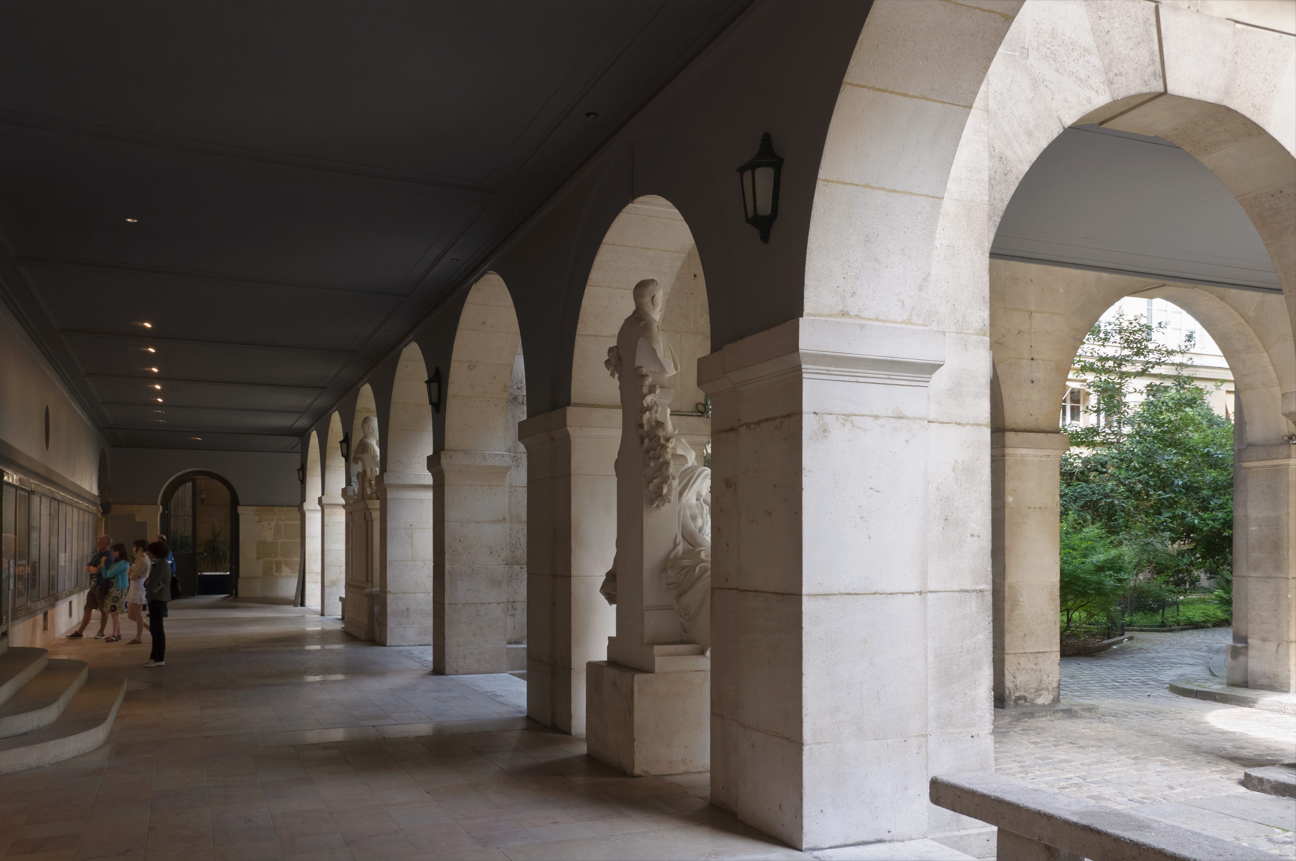 Cloister of the Cordeliers Campus, Pierre and Marie Curie University, on the site of the former Cordeliers Convent in Paris, France.